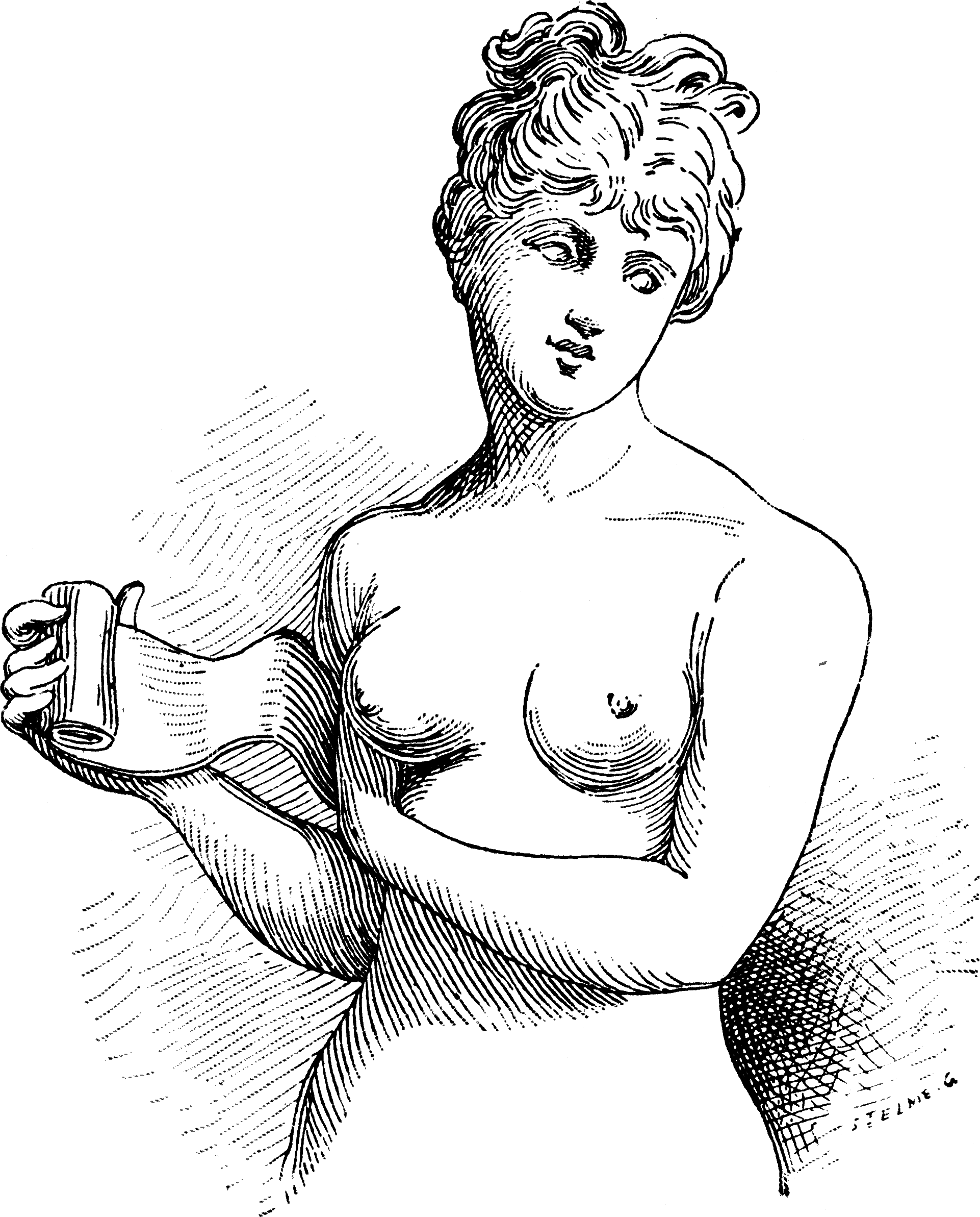 Sethodesme or Fascia after an ancient statue.